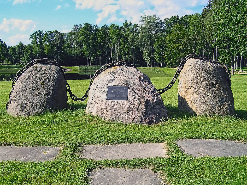 Monument to the Baltic Way in Käru, Estonia.